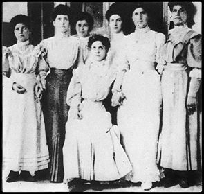 Lili Vlahou